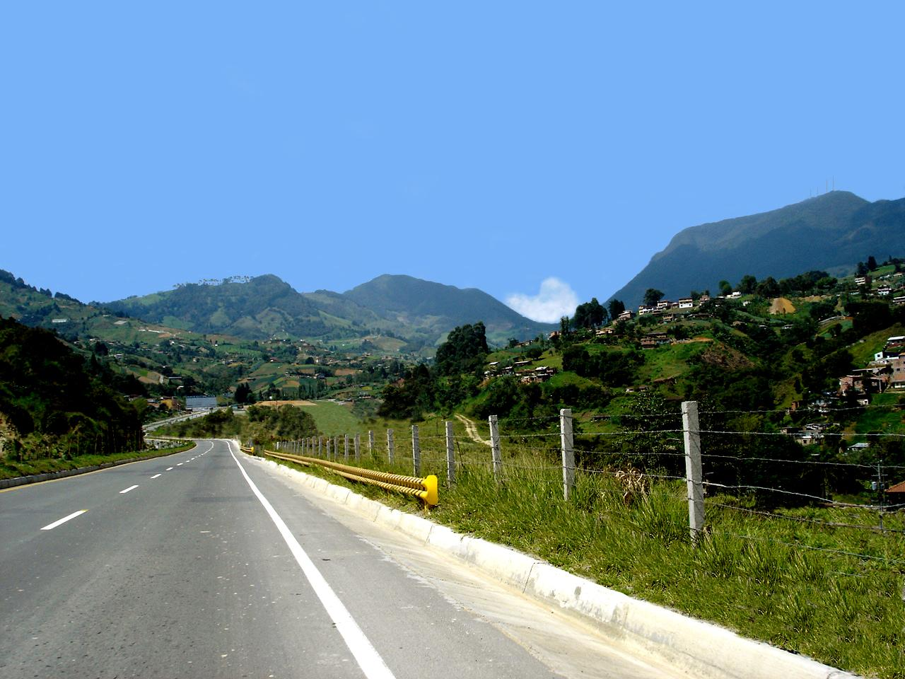 Image taken by uploader on October, 2006